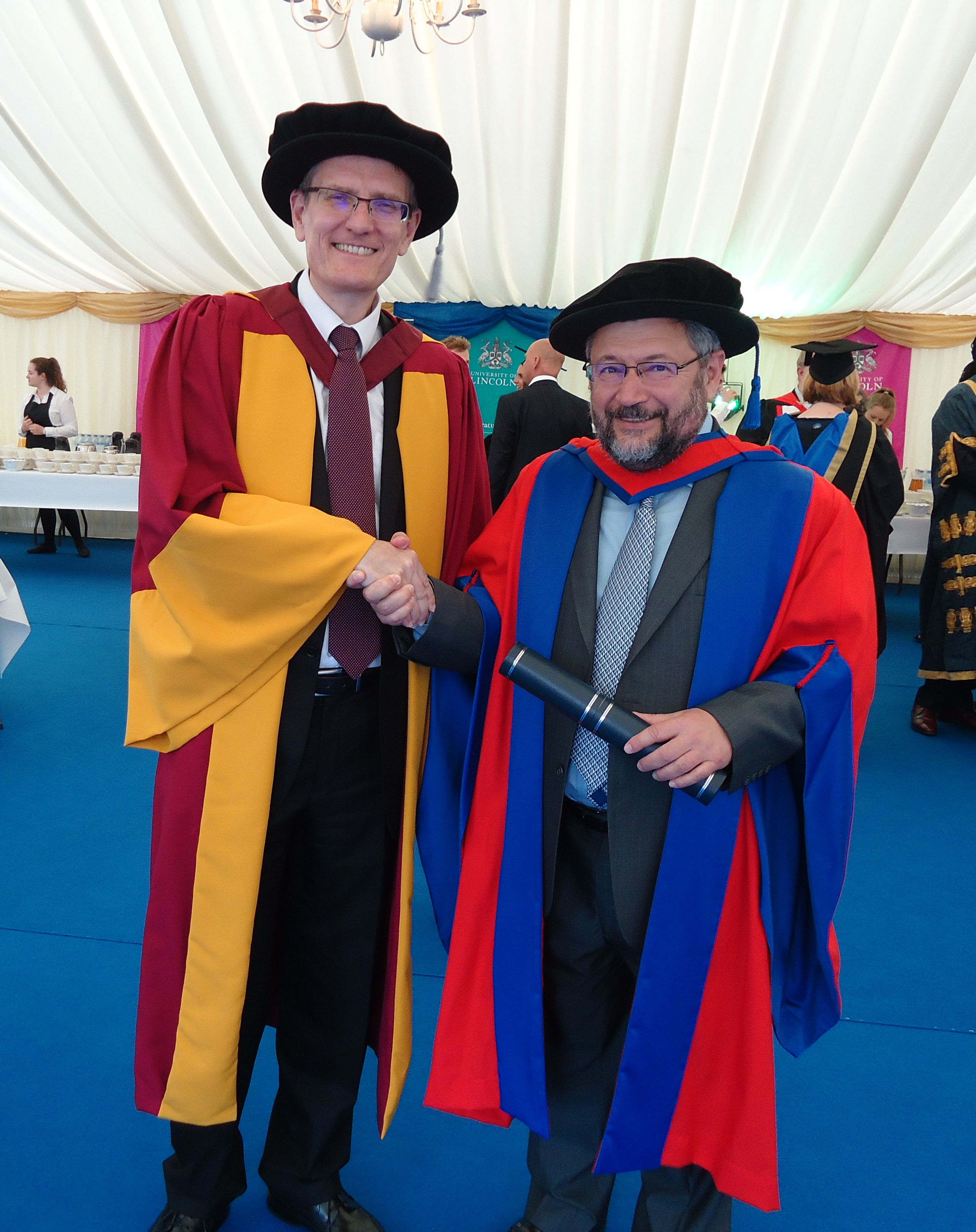 Professors Zelmanov and Hunter in Lincoln, UK